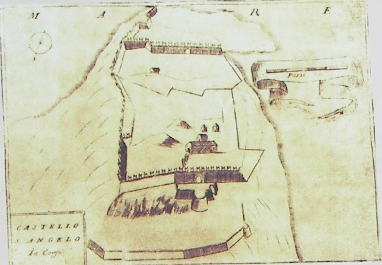 Angelokastro old map